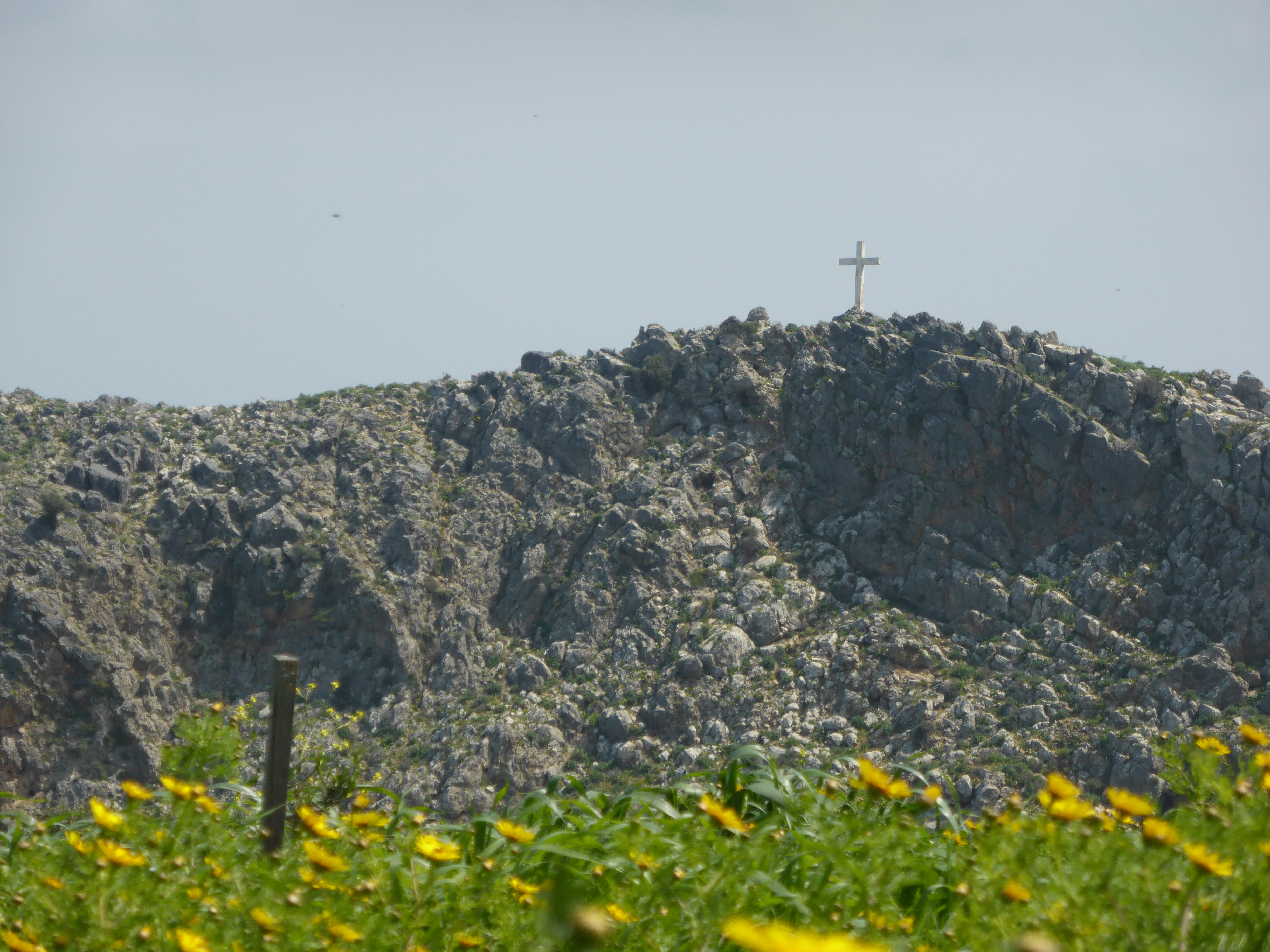 Anopoli, monumental cross on Seli hilltop, a memorial for the 1896 slaughter of monks and villagers.